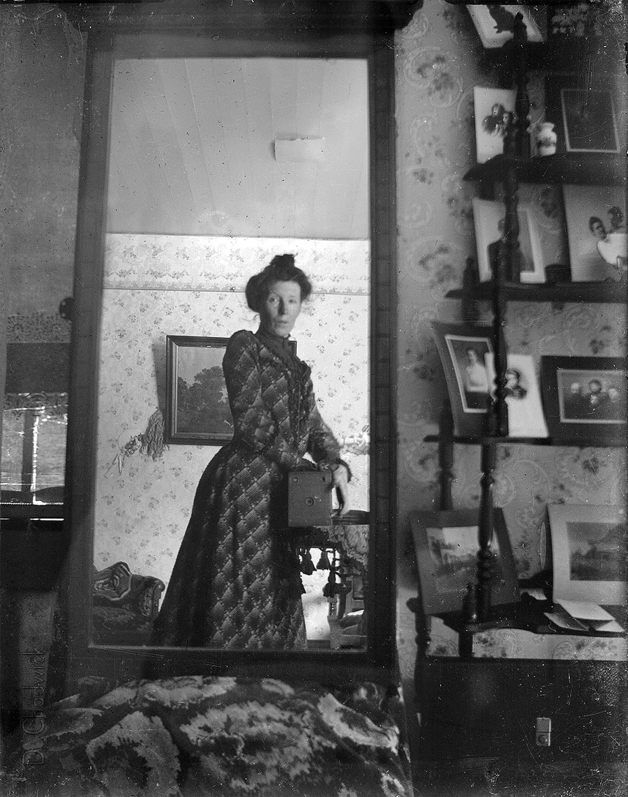 Unidentified woman taking her own photograph using a mirror and a box camera, roughly 1900, Scanned from the original 4x5 inch glass negative.